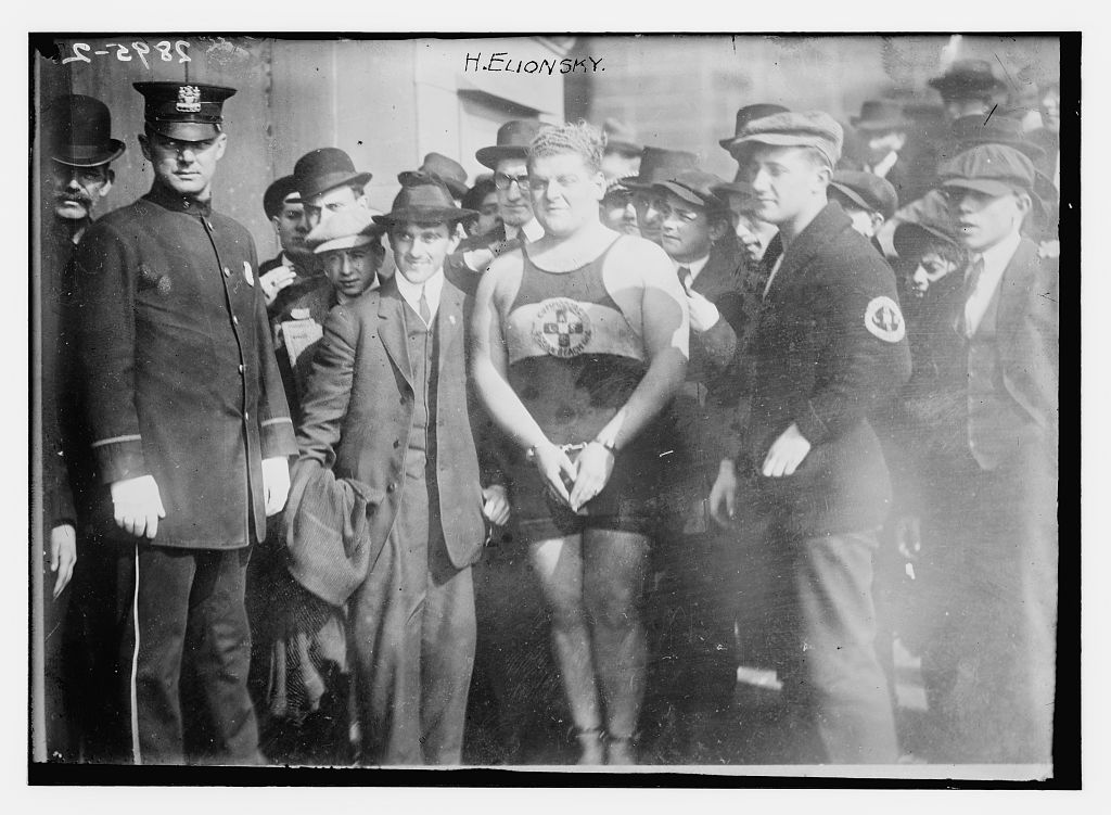 Harry Elionsky [between ca. 1910 and ca. 1915] 1 negative : glass ; 5 x 7 in. or smaller. Notes: Title from unverified data provided by the Bain News Service on the negatives or caption cards. Forms part of: George Grantham Bain Collection (Library of Congress). Format: Glass negatives. Repository: Library of Congress, Prints and Photographs Division, Washington, D.C. 20540 USA, General information about the Bain Collection is available at Persistent URL: Call Number: LC-B2- 2895-2